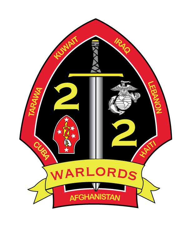 The updated logo for 2d Battalion, 2d Marines, 2d Marine Division